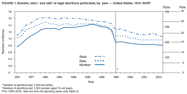 CDC chart on the number of abortions in the United States over time through 2005